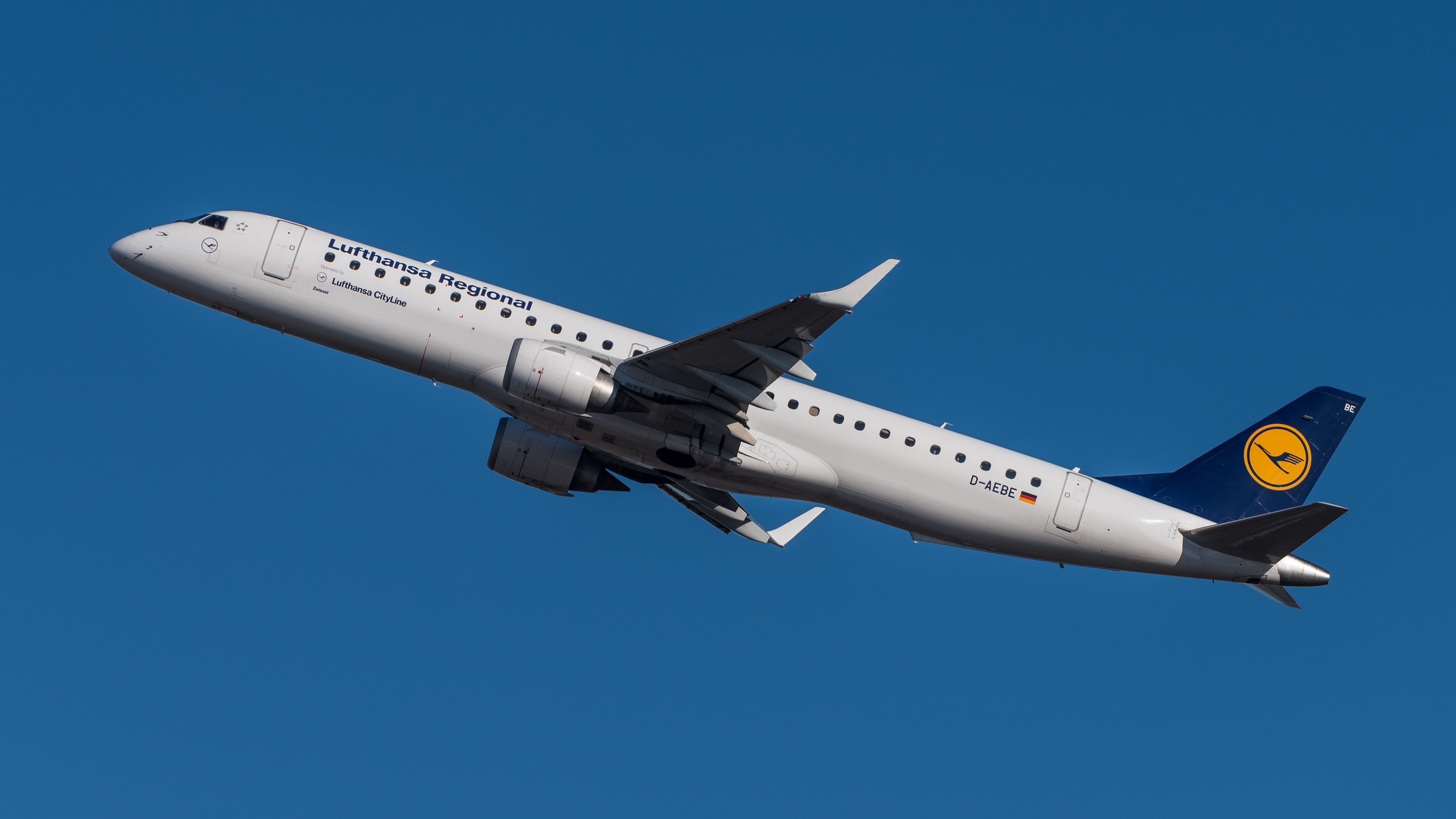 Lufthansa Regional (Lufthansa CityLine) Embraer 195LR (ERJ-190-200LR) (reg. D-AEBE, msn 19000350) at Munich Airport (IATA: MUC; ICAO: EDDM).